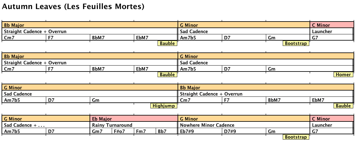 Roadmap produced by Impro-Visor from a leadsheet Rmkeller (talk) 04:18, 2 January 2015 (UTC)